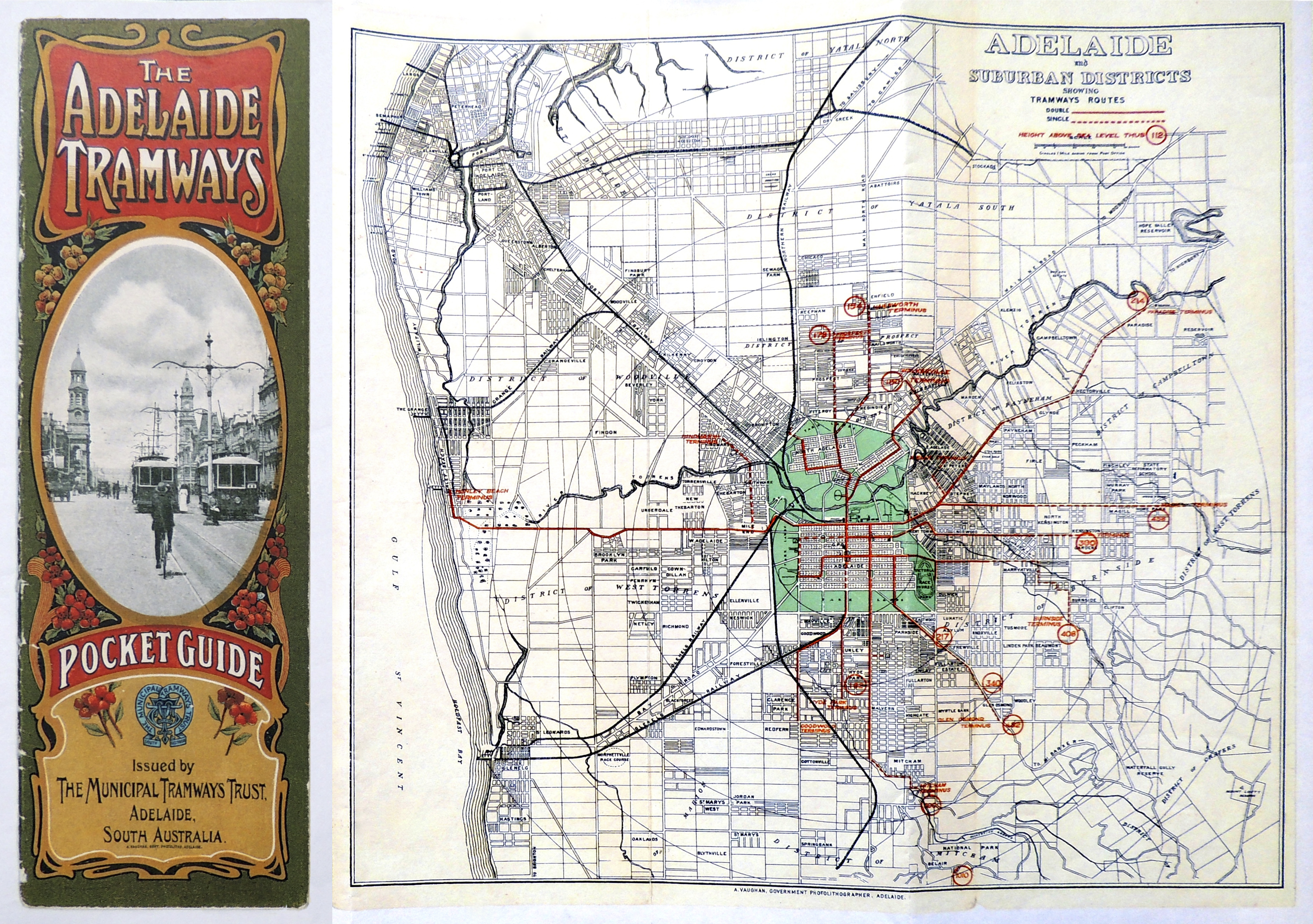 Map of Adelaide Tramway network in 1912